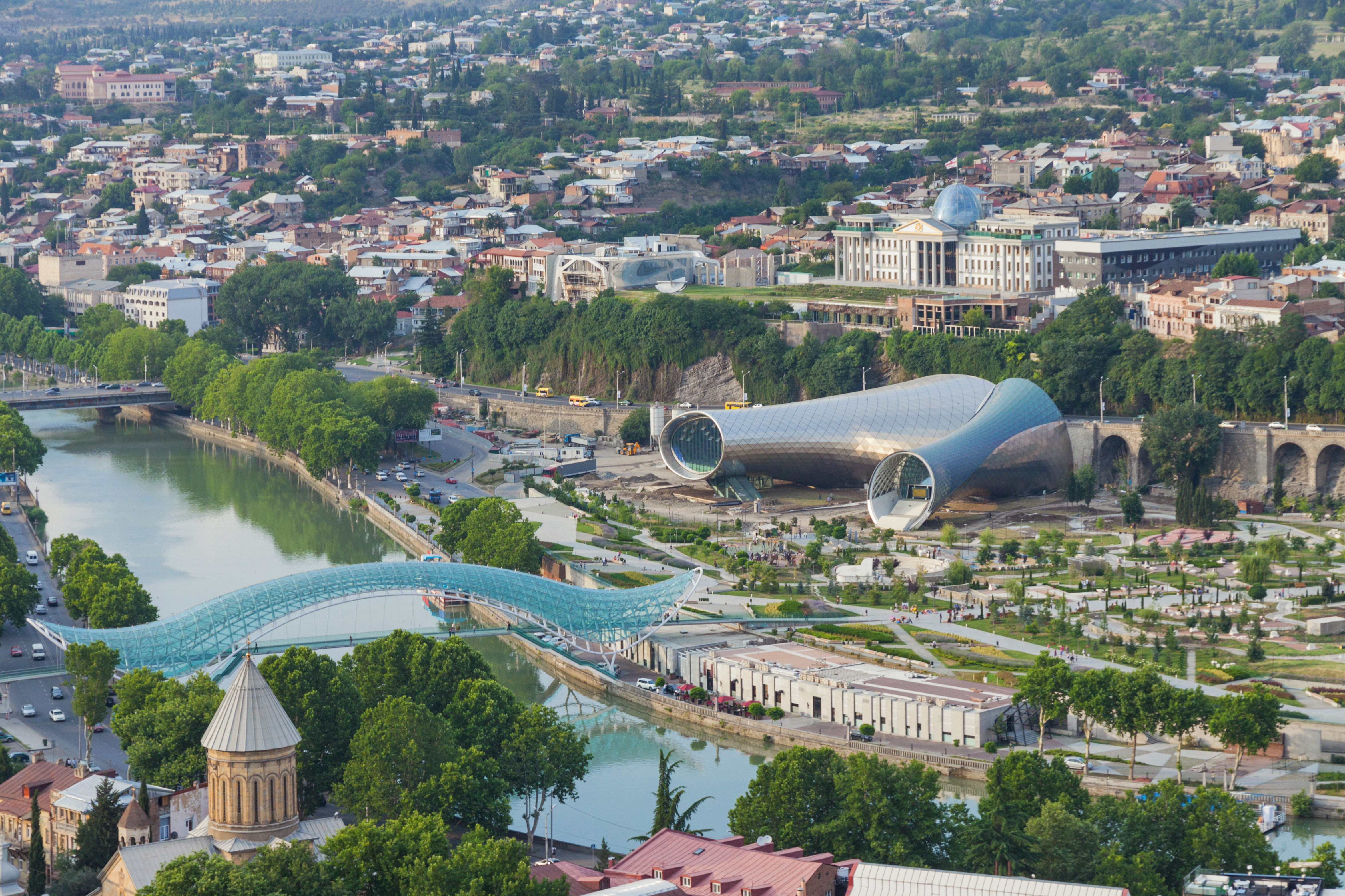 The views from the Narikala fortress. Tbilisi, Georgia.